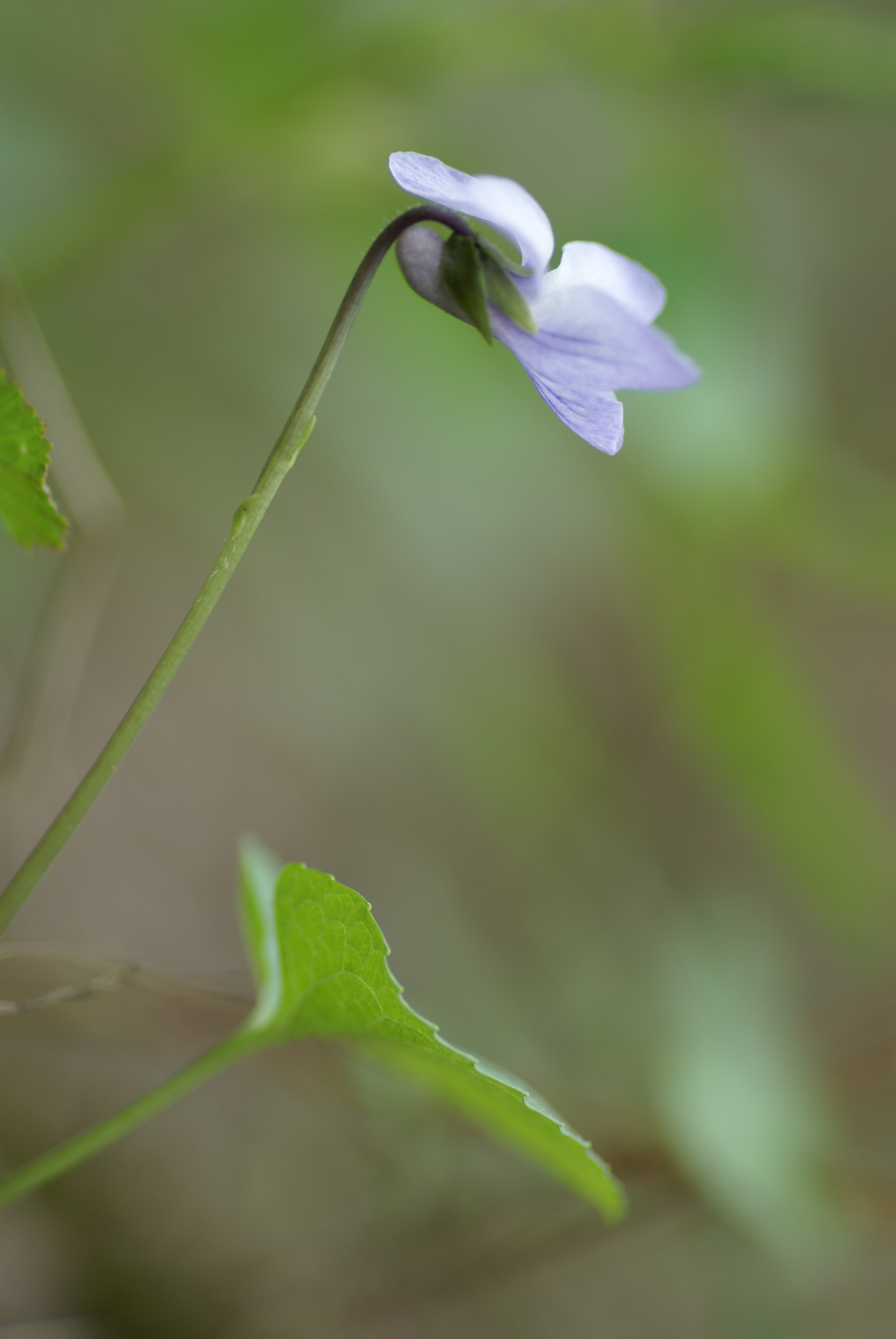 Plant species Viola epipsila in Swedish province Uppland